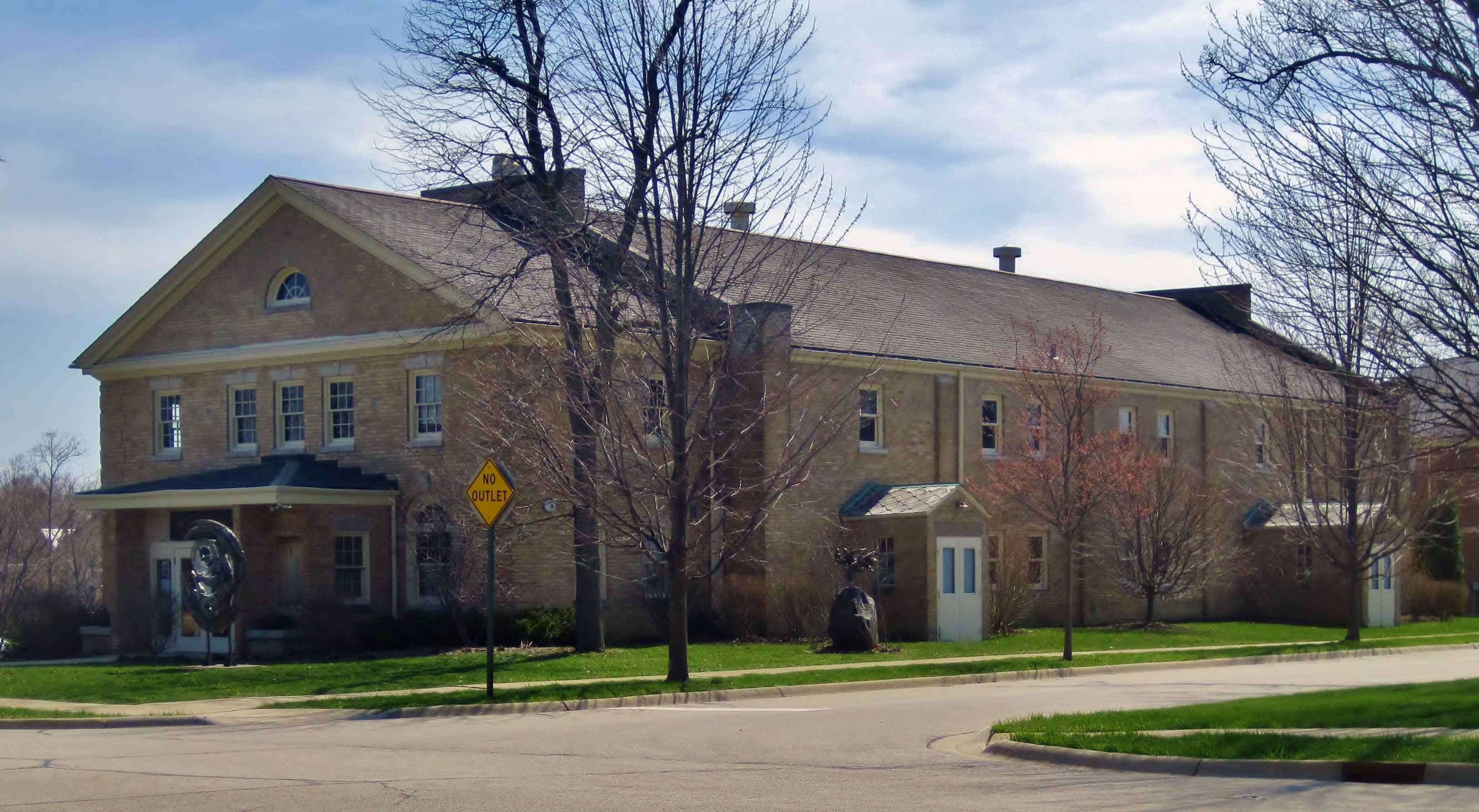 Theatre, Building 180 in the Fort Sheridan Historic District, a national landmark district (1932). Once the movie theater for troops stationed at the army base, it is now the studio for Julie Rotblatt-Amrany and Omri Amrany, who are best known for the sculpture of Michael Jordan outside of the United Center.